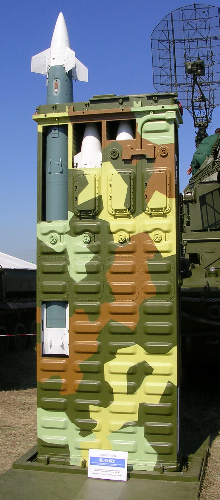 4 x 9М330 missiles on MAKS-2005 airshow